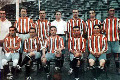 The River Plate football team that won its first Argentine Primera División championship in 1920. Players are, from left to right (stood): Choperena, Giúdice, Crotti, Taramasso, Cándido García, Simmons. (seated): Arroyuelo, Galanzino, Laiolo, Rofrano, Chavín.